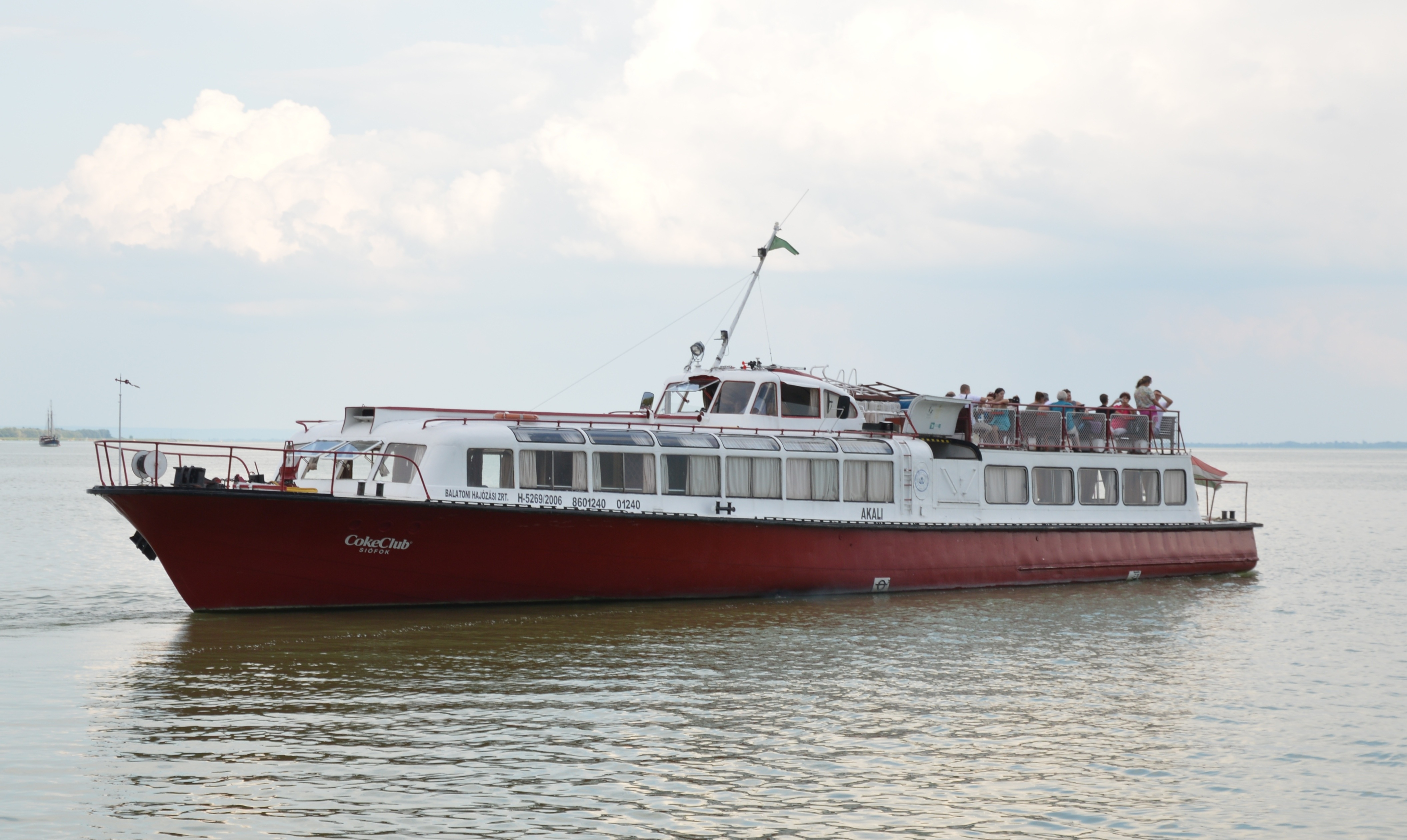 Akali (ex. Megyer) passenger ship on the Lake Balaton (Keszthely bay)